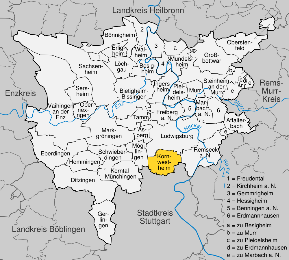 position of Kornwestheim within distict of Ludwigsburg, Baden-Württemberg, Germany